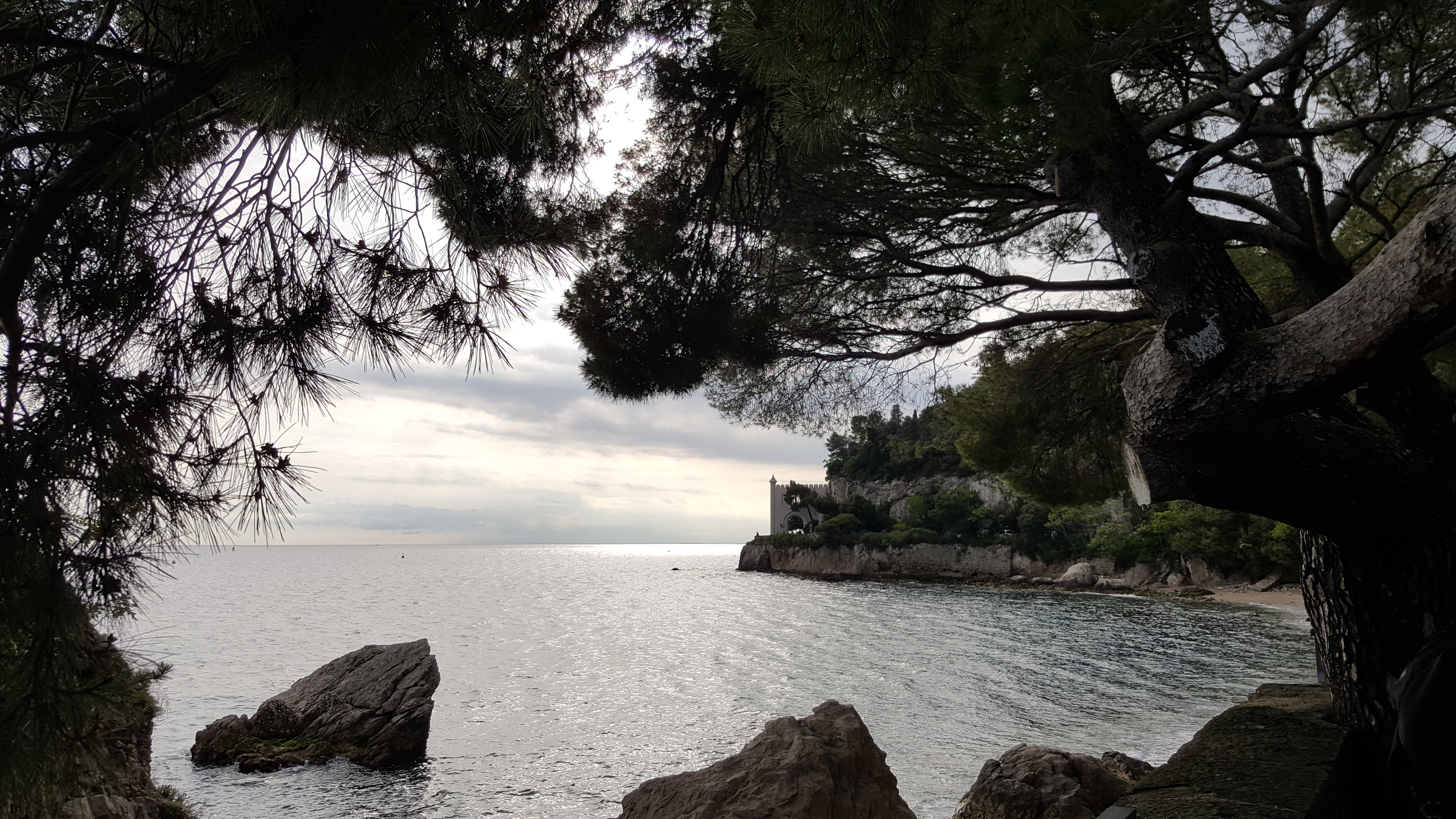 This is a photo of a monument which is part of cultural heritage of Italy. The authorisation for taking photos of this object was provided by the World Wide Fund for Nature Italy.